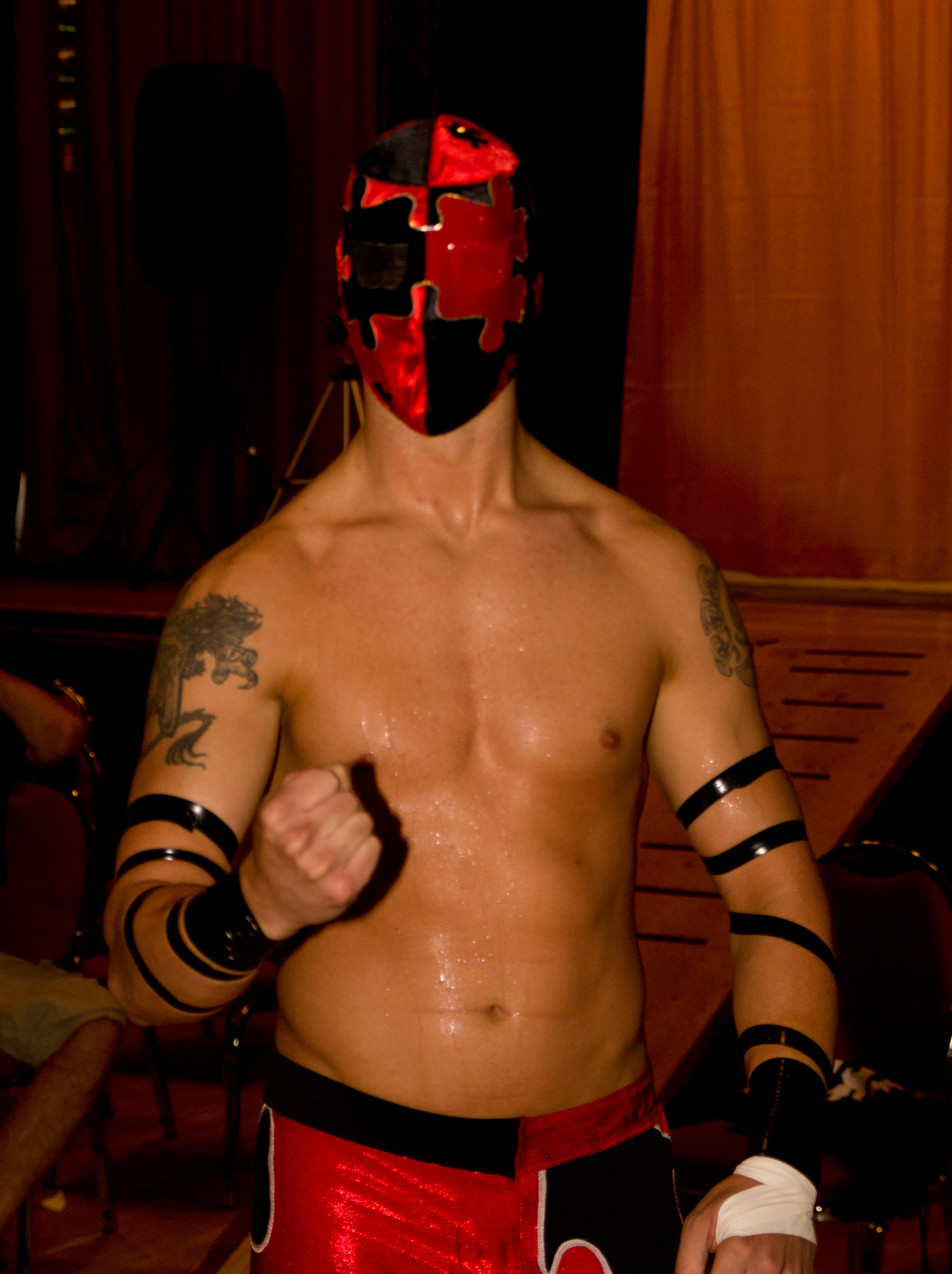 Jigsaw at an independent wrestling show in Hamilton, ON